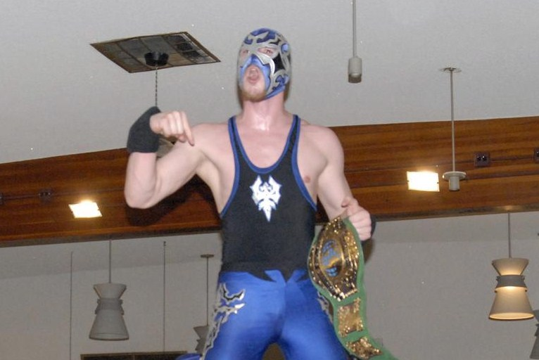 Professional wrestler Quicksilver as one-half of the PWG World Tag Team Champions on June 13, 2005 at PWG's ALl Star Weekend Day 1 show.